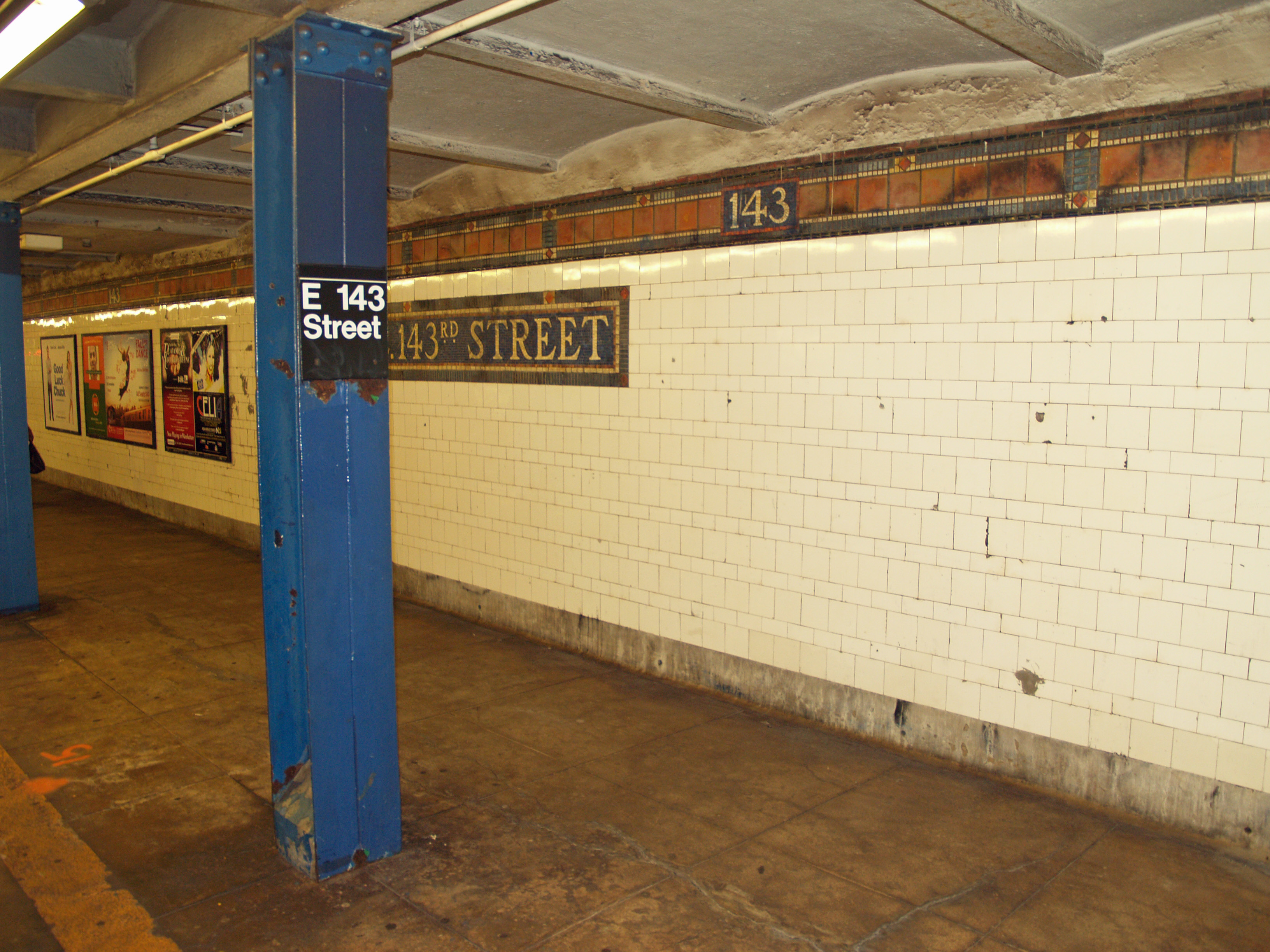 East 143rd Street–St. Mary's Street (IRT Pelham Line) by David Shankbone